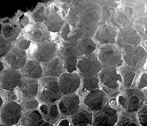 Model for glassy carbon. Own work (Anton, 2006)